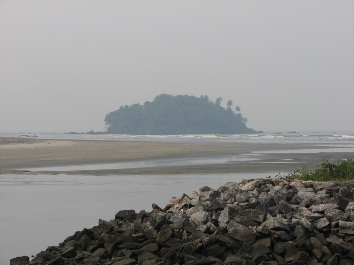 Dharmadom island in Kannur, Kerala.